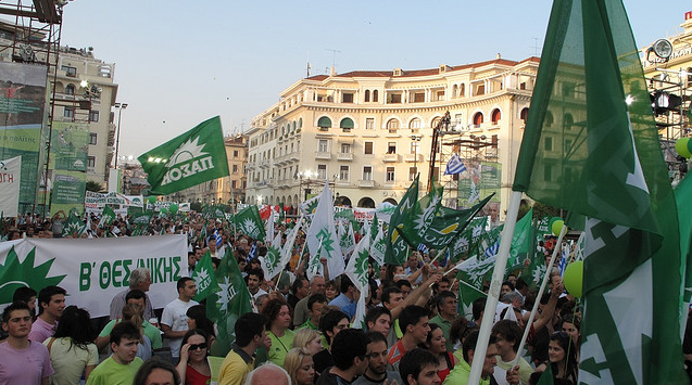 A political rally organized by the Panhellenic Socialism Movement in Thessaloniki, Greece.